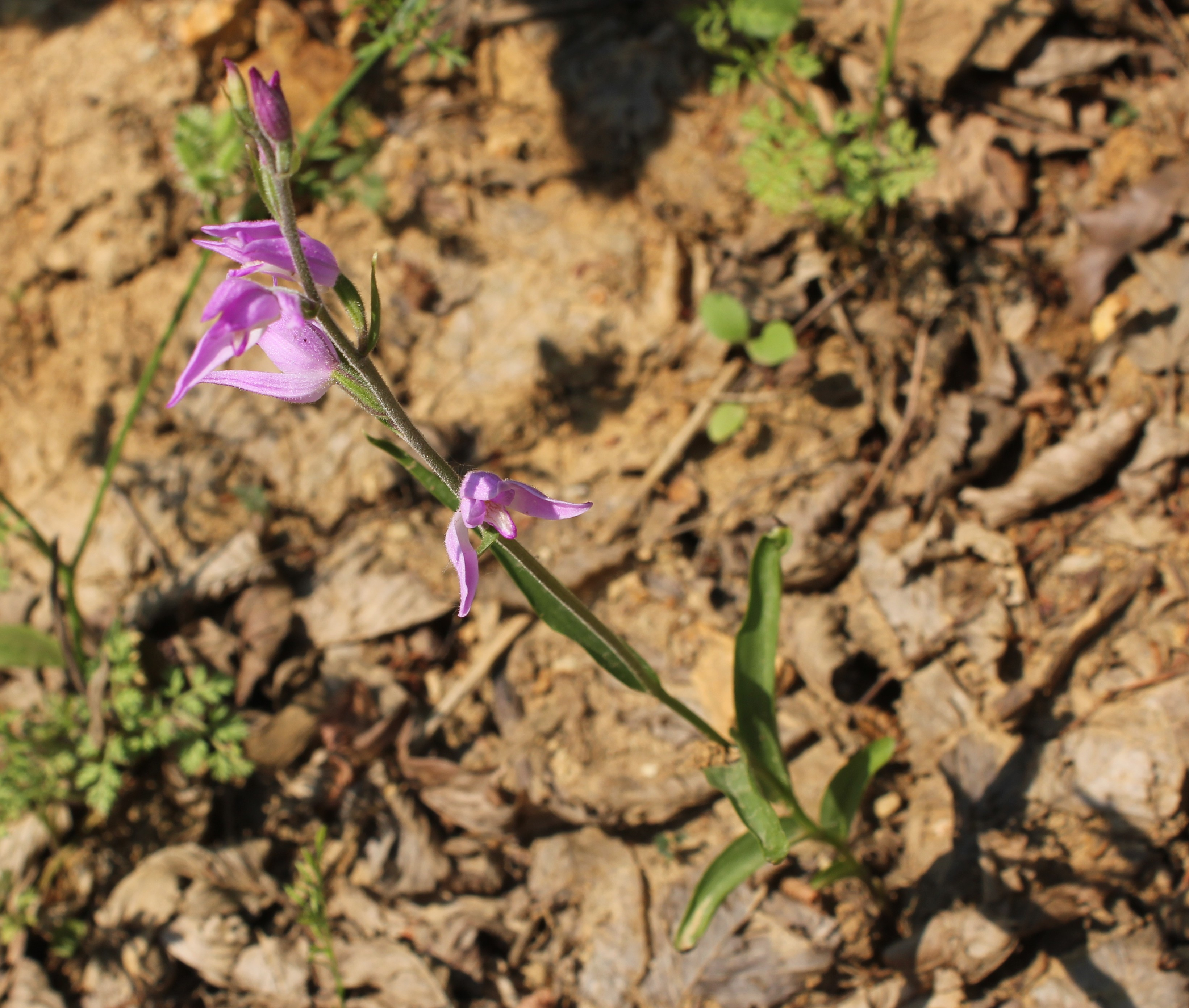 Cephalanthera rubra scape